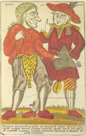 Lubok "Eryoma and Foma". Engraving on copper coloring. The last quarter of the XVIII century.